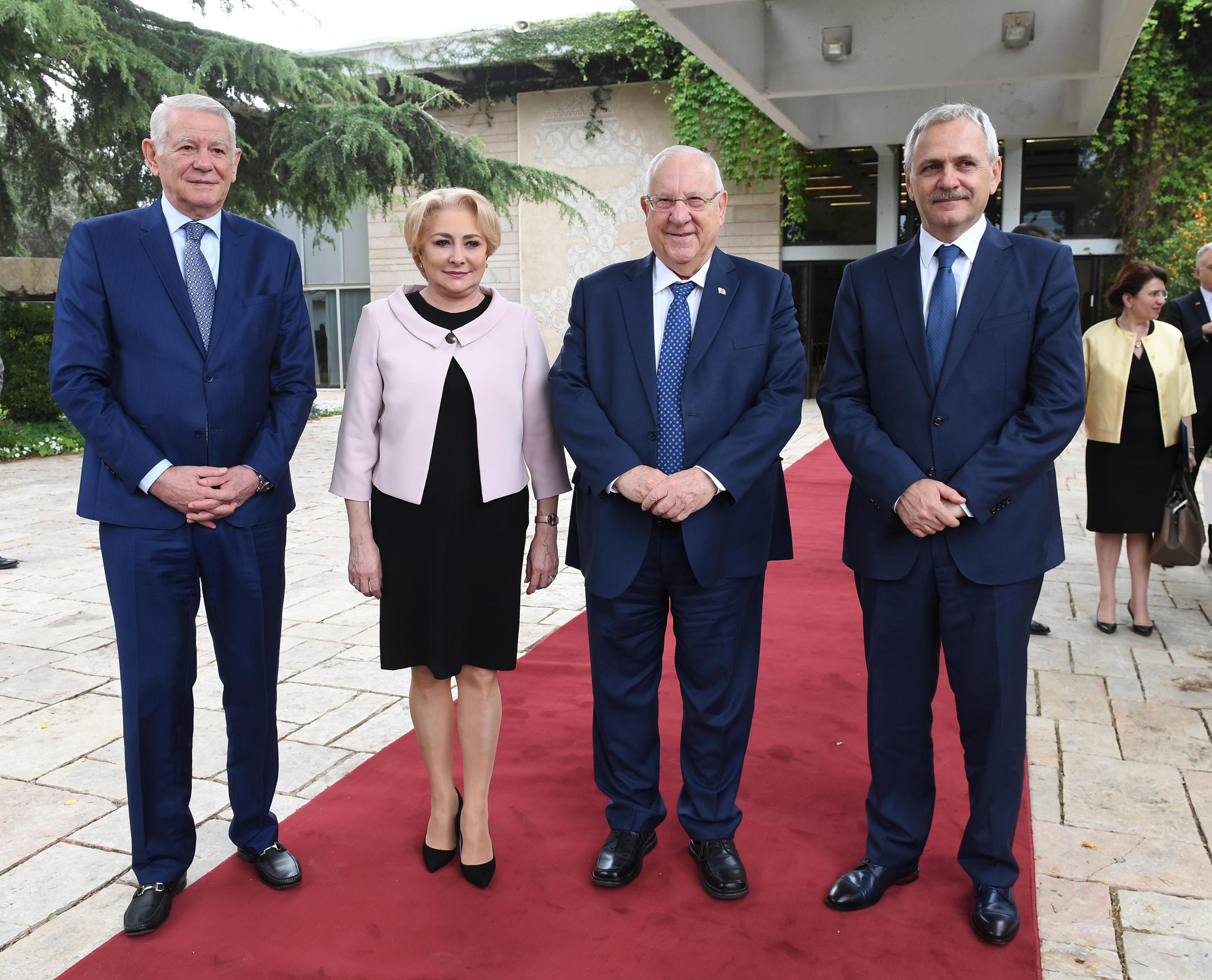 President of Israel, Reuven Rivlin, In a meeting with the head of the Romanian government, Viorica Dăncilă, as part of her official visit to Israel. Thursday, April 26, 2018. Photo Credit: Mark Neyman / GPO. Depicted people: Teodor Meleșcanu, Viorica Dăncilă, Reuven Rivlin and Nicolae-Liviu Dragnea